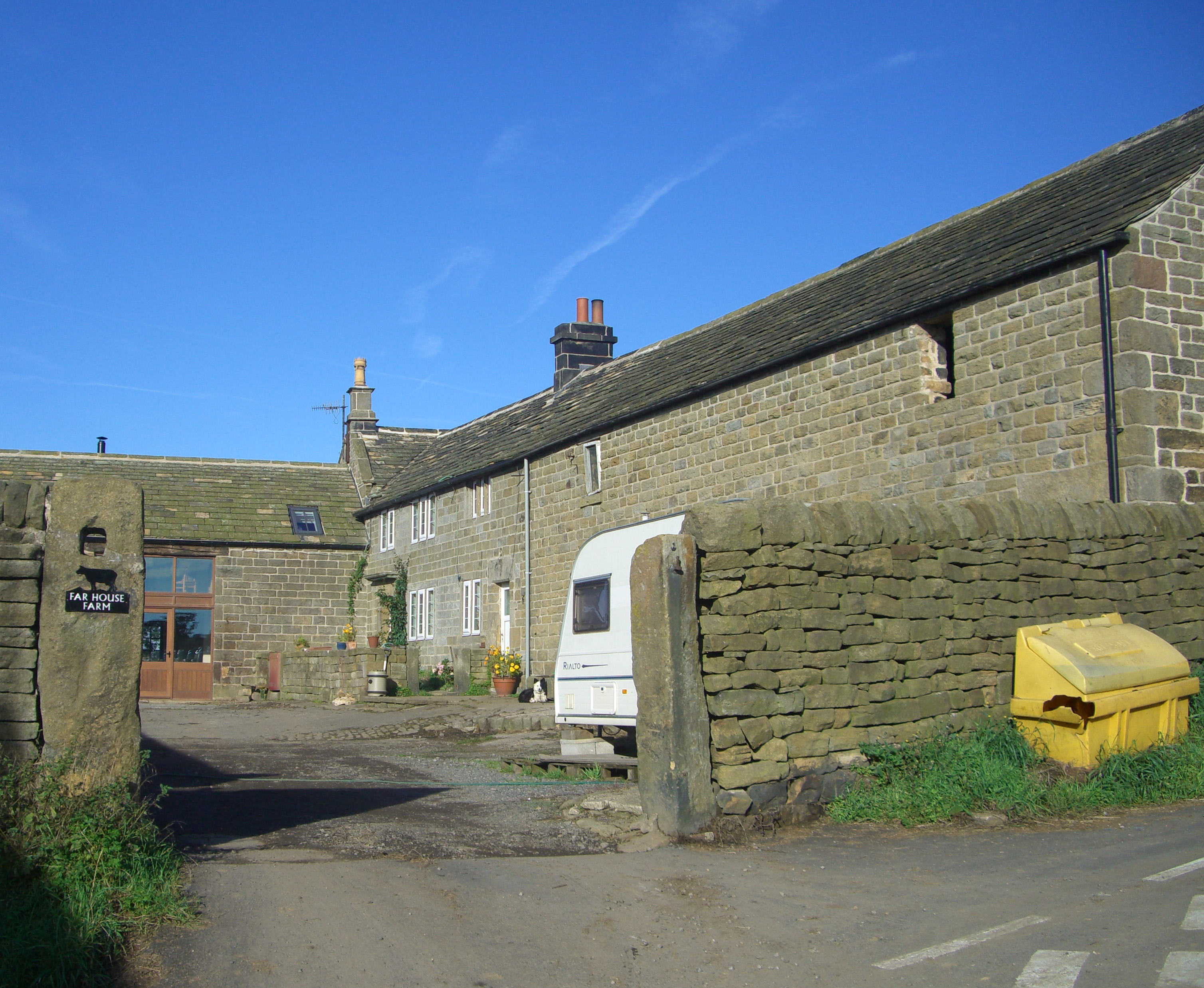 Far House Farm in Holdworth, Sheffield, England. A Grade II listed building dating from the late 17th century.